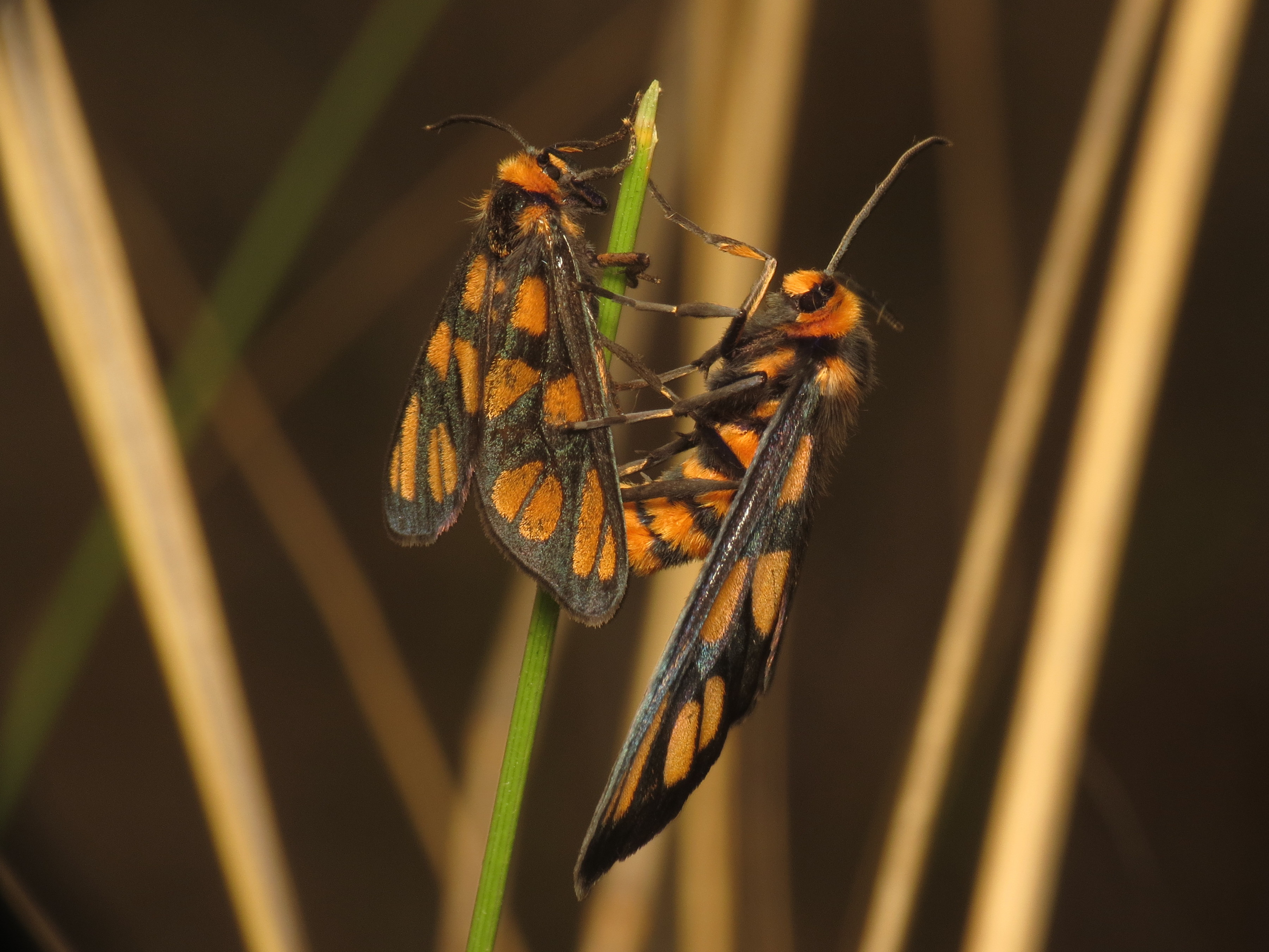 Amata trigonophora (Turner, 1898), copulating pair, Black Mountain, Canberra, ACT, 20 January 2014